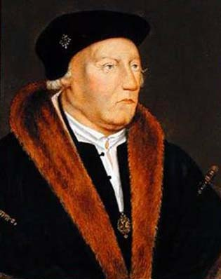 Henry Bourchier, 2nd Earl of Essex (1468-1539), KG, after 1825 watercolour portrait by Sarah Bazett (d.1838) ("Sarah"), wife of George Capel-Coningsby (d.1839) (presumably copy of now lost original contemporary portrait), published in "Memoirs of the Court of Queen Elizabeth", by Lucy Aikin, 1825 edition (per Bridgman Art Library)